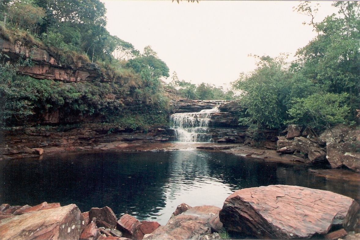 Kawi Meru, waterfall in Gran Sabana, Venezuela